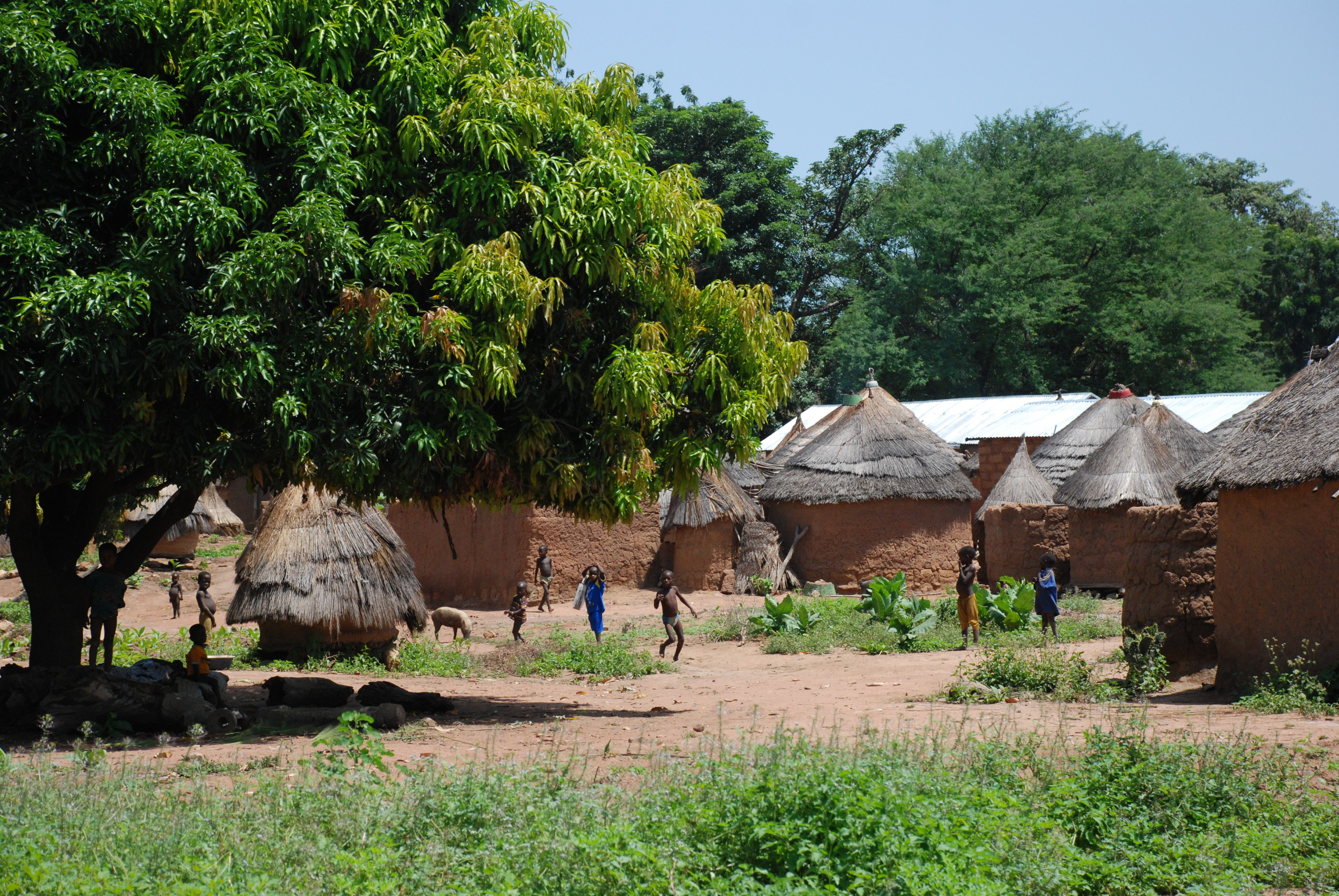 Village in the Province Atakora - Benin, West Africa - north of Natitingou)